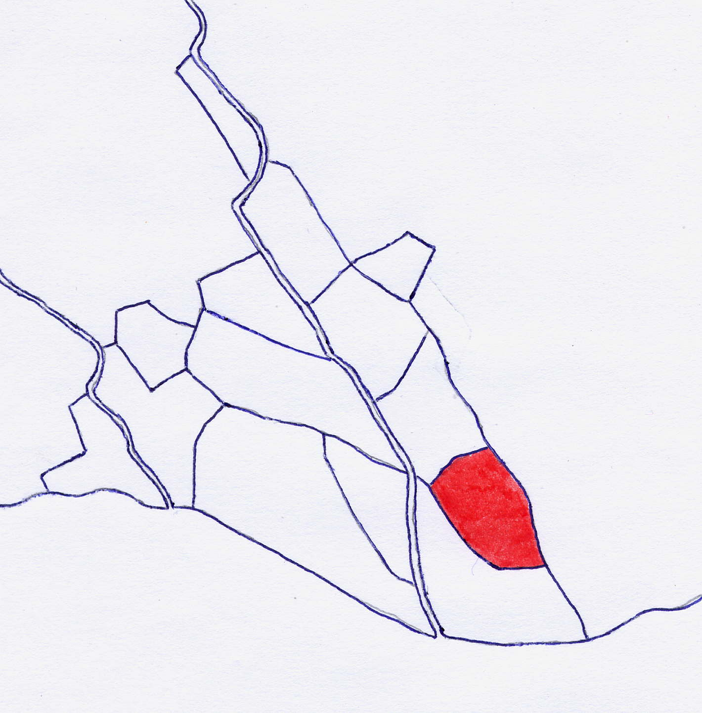 Zavokzalny microdistrict in Tsentralny City district of Sochi